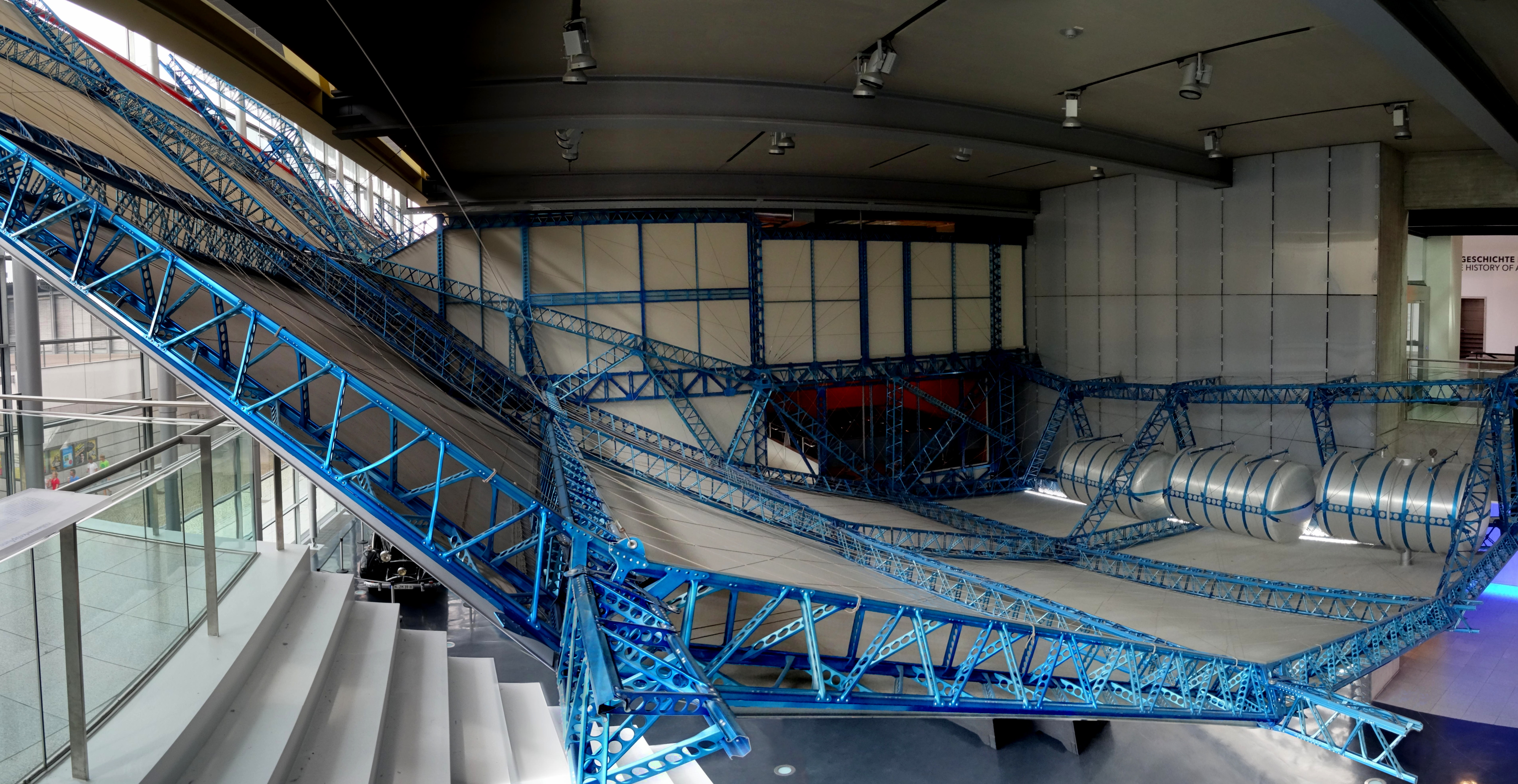 The picture shows the interior of the reconstruction LZ129 "Hindenburg". One sees aluminum skeleton with tension wires, outside cloth and tanks.